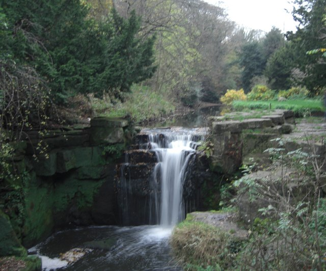 Jesmond Dene - The Waterfall The waterfall was constructed by Lord Armstrong to provide a more picturesque view.